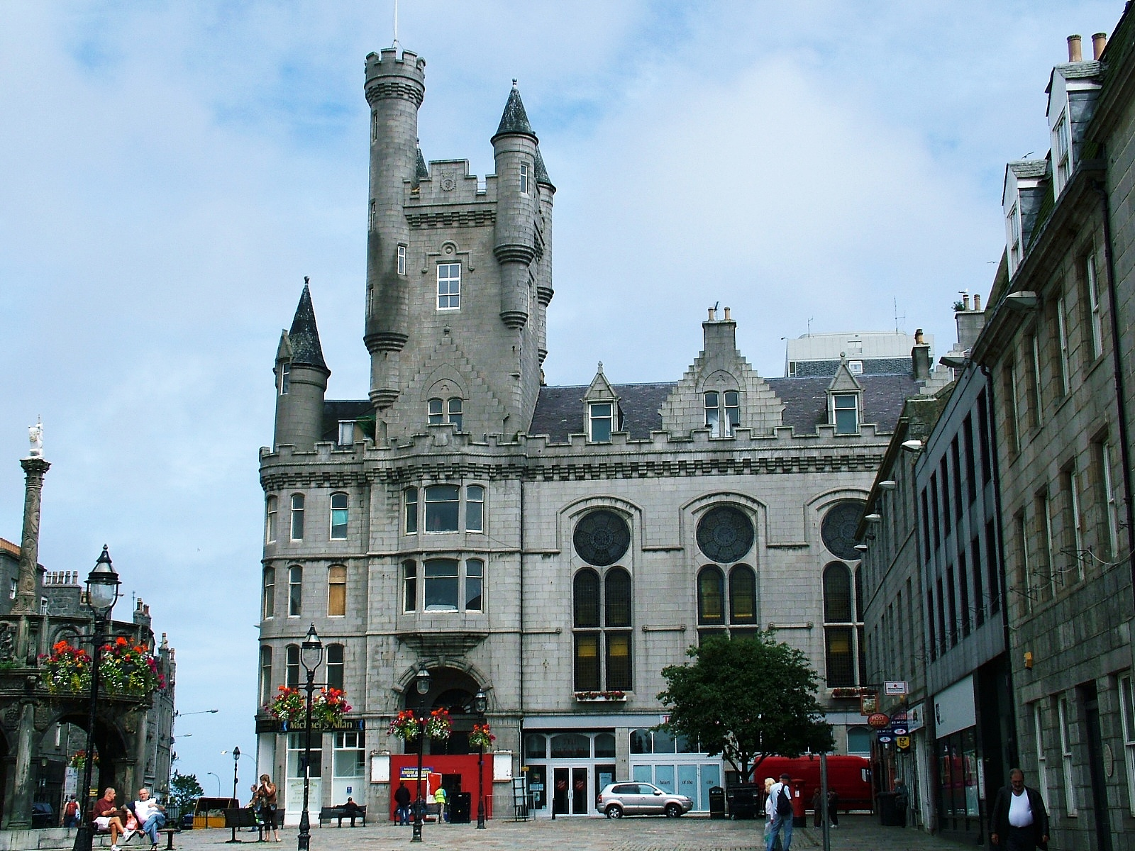 Aberdeen, Salvation Army Citadel. Aberdeen Salvation Army Citadel, built 1893-96 (architect James Souttar - ), at the east end of the Castlegate.